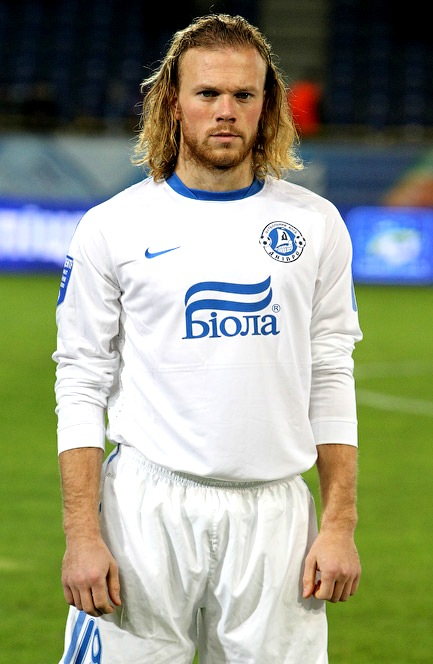 Vitaliy Denisov, association football player from Uskekistan